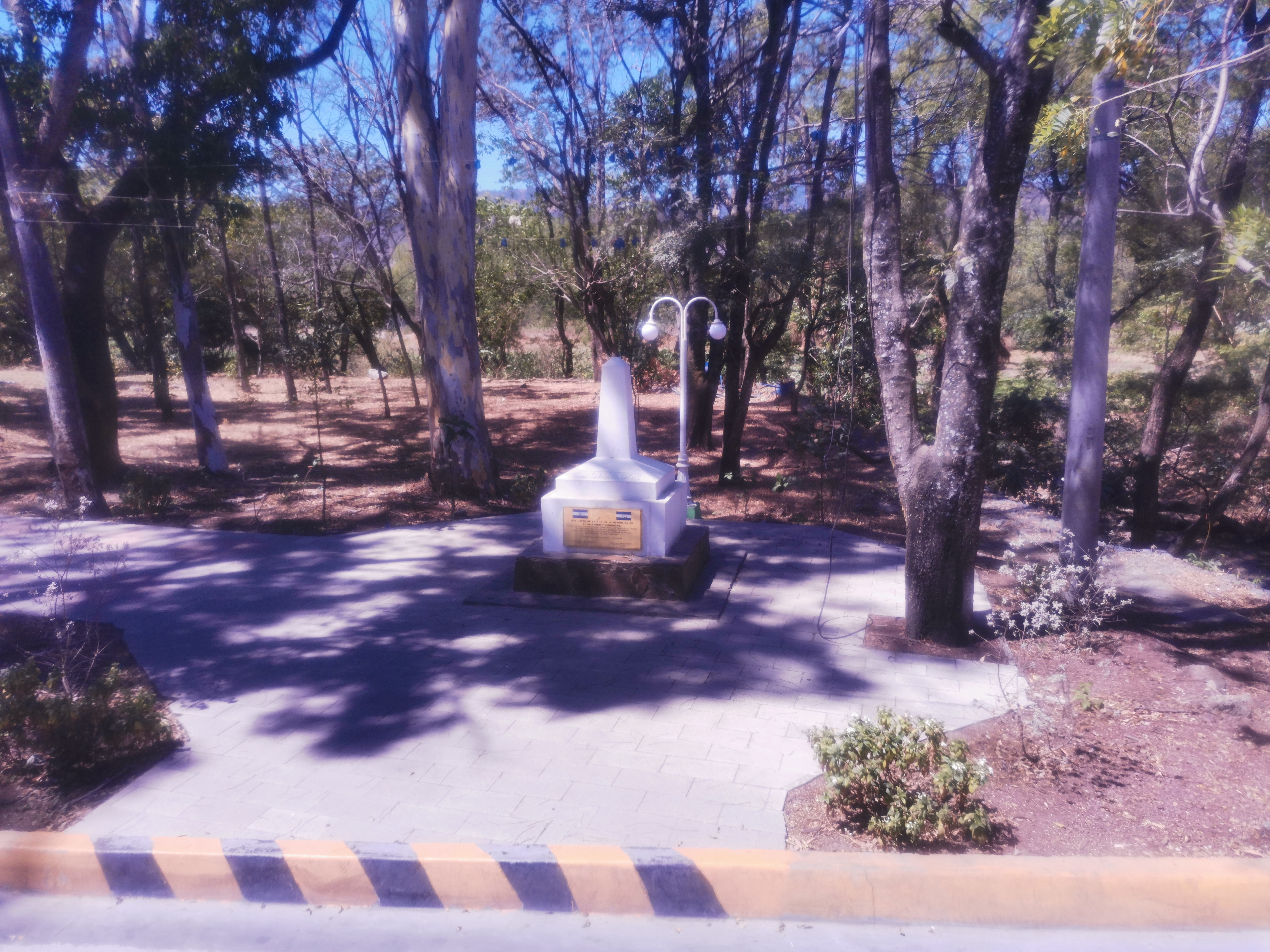 Boundary stone between Honduras and El Salvador, El Poy Migration Office.